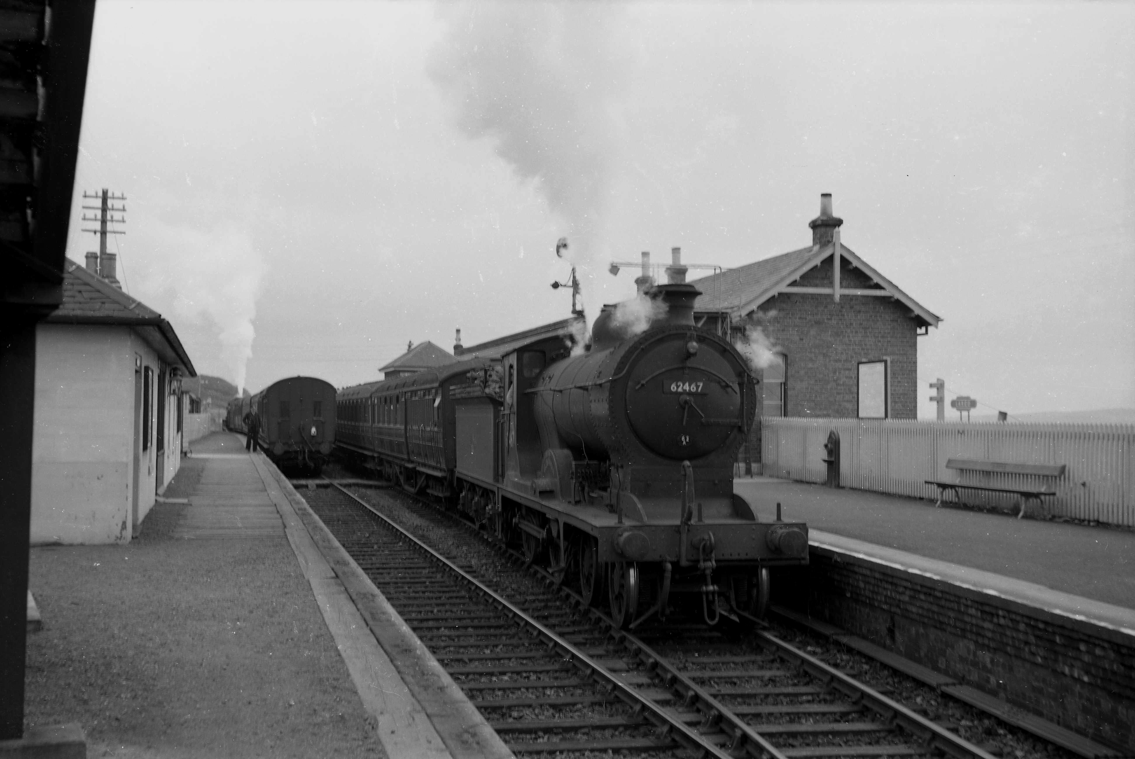 NBR K class engine at Mount Melville with RCTS Railtour round the Fife Coast from Thornton to Leuchars Jct on 12th June 1960. File name is "Glen Douglas" (loco 62469). The picture actually shows loco 62467 "Glenfinnan".